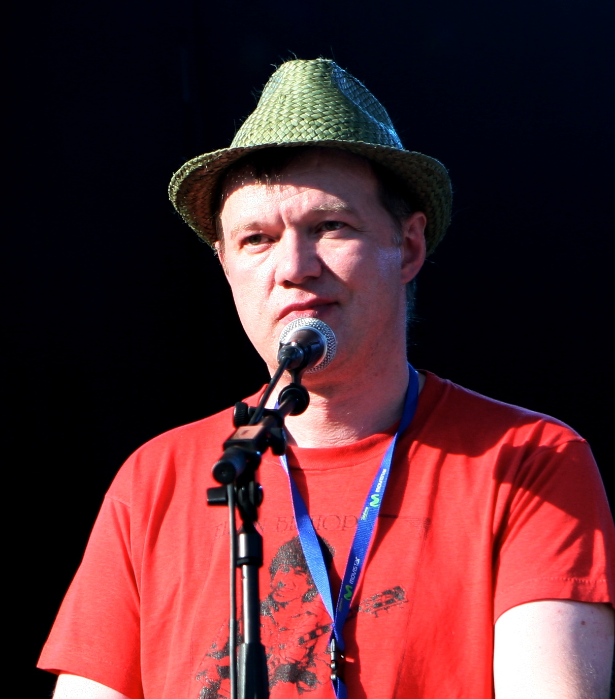 Edwyn Collins @ Summercase 2008